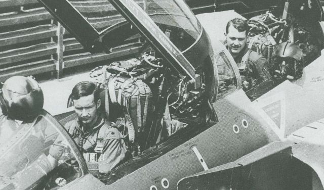 Maj. Robert Lodge and Maj. Roger Locher in the cockpit of their F-4D Phantom II jet, seen earlier in 1972. The team had shot down two MiGs when they clashed with MiG-21s and Shenyang J-6 (Chinese MiG-19s) jets on the morning of 10 May 1972 and were shot down. Lodge decided not to eject and was killed. Locher was recovered 23 days later in the deepest search and rescue operation inside North Vietnam.